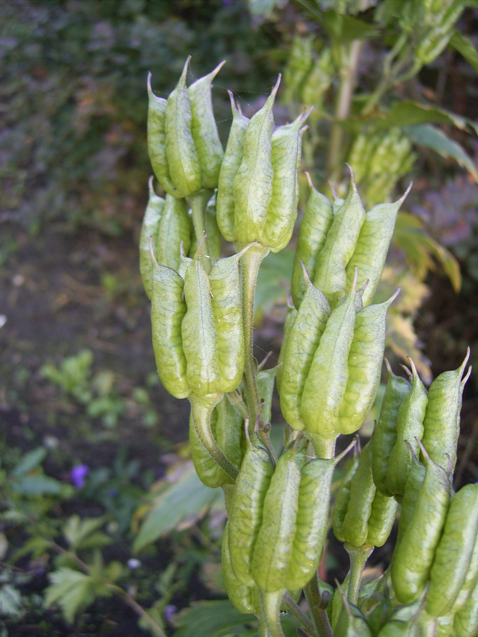 Deze foto toont de zaaddozen van de Aconitum carmichaelli 'arendsii'. Ik nam de foto in het Zuiderpark in Den Haag. This photo shows the seedpost of Aconitum carmichaelli 'arendsii'. I took the photo in Den Haag, Nederland.